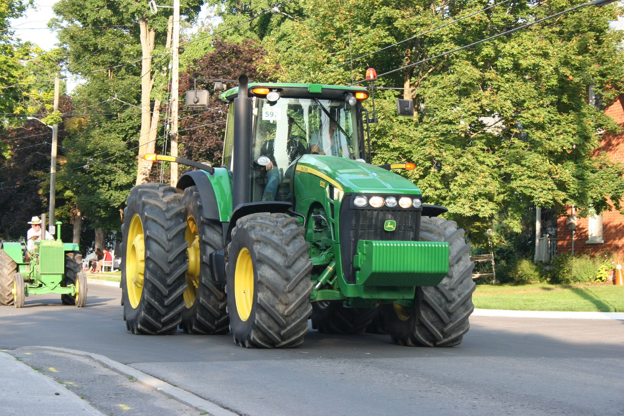 John Deere 8230, Stirling Tractor Parade 2008, Canada